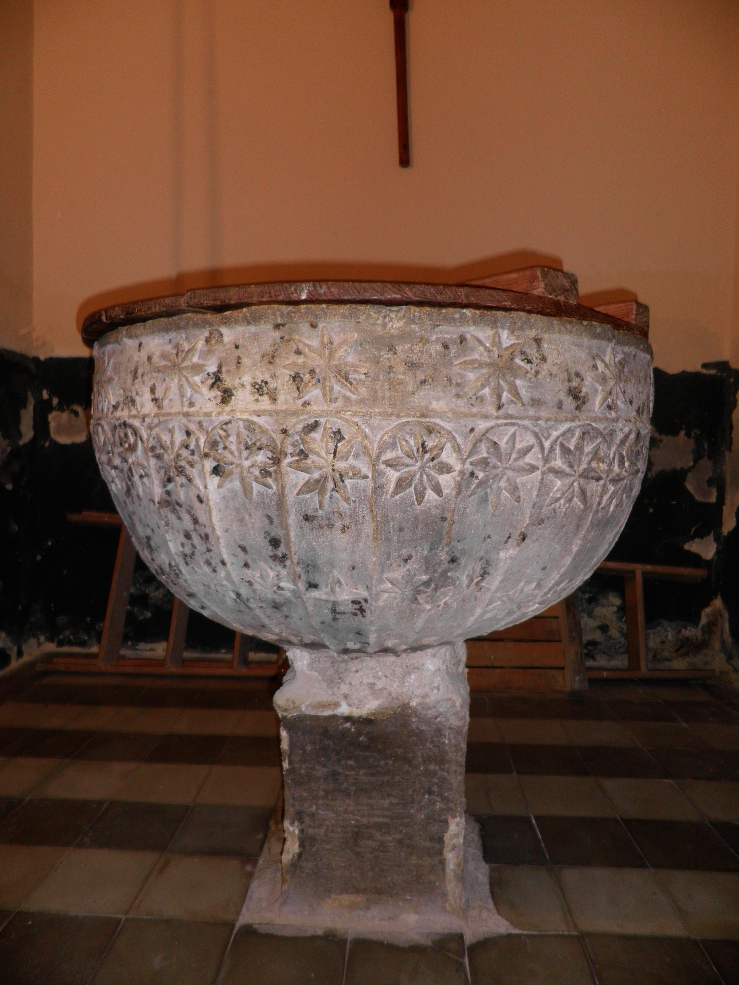 Baptismal font in Melque de Cercos church, in Segovia province, Spain.